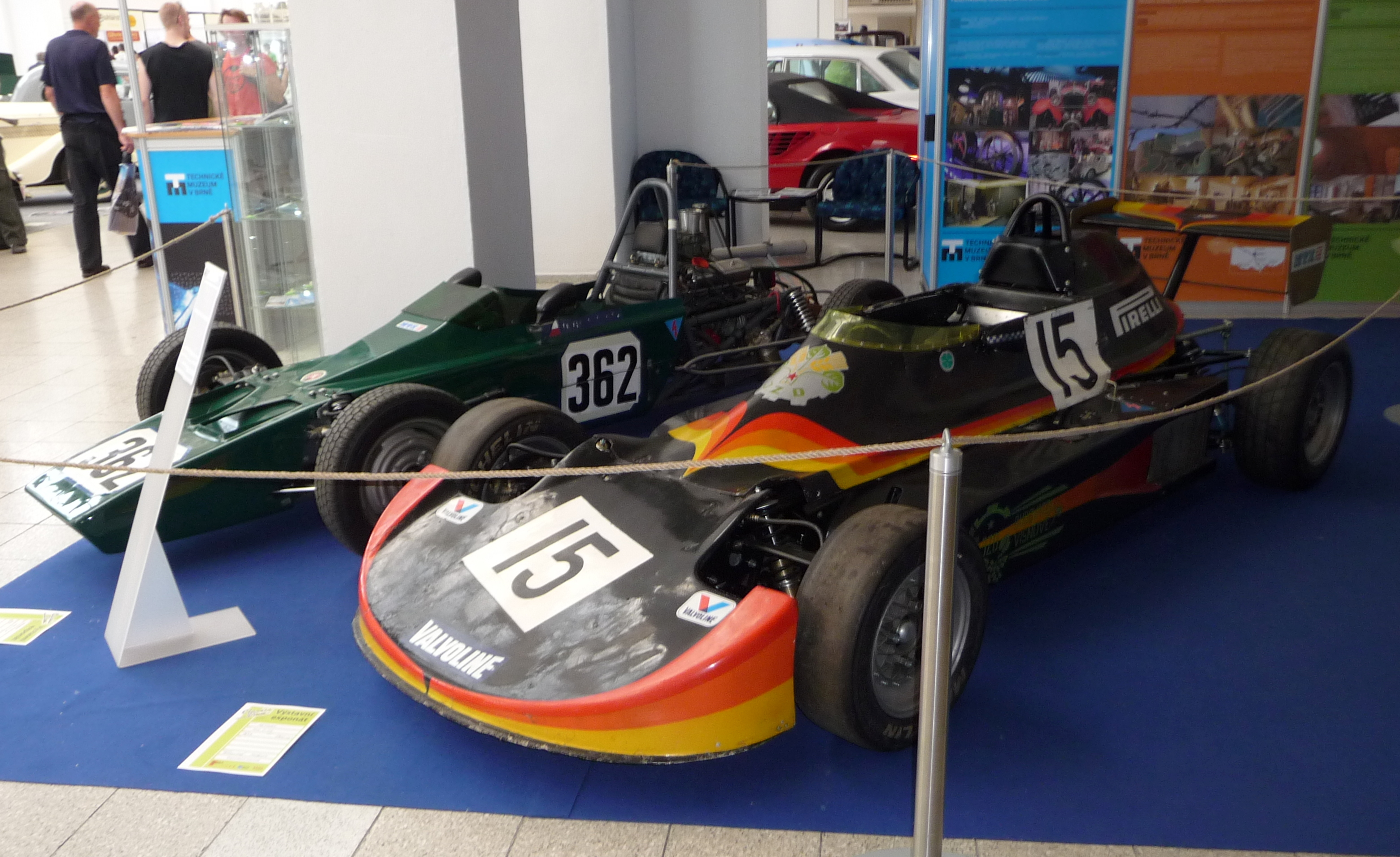 Metalex MTX 1-03, 1977, 1300 ccm, Classic Show Brno 2011, The Brno Exhibition Grounds -10 -5 -3 -2 ◄ ► +2 +3 +5 +10